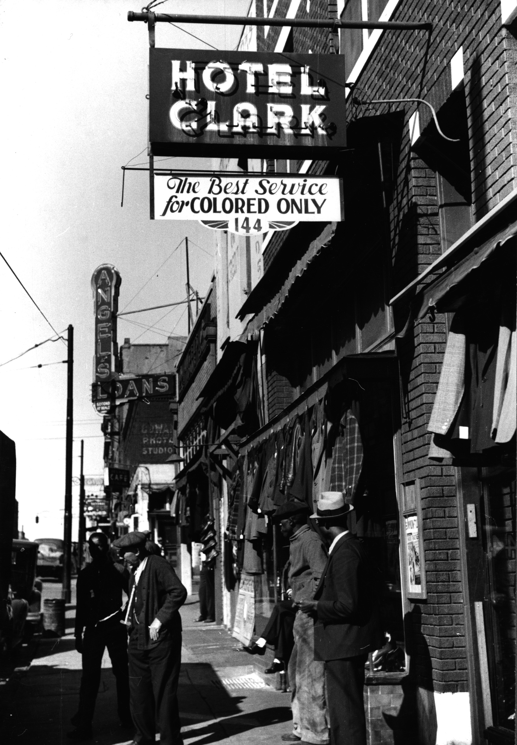 Hotel Clark on Beale Street, Memphis TN